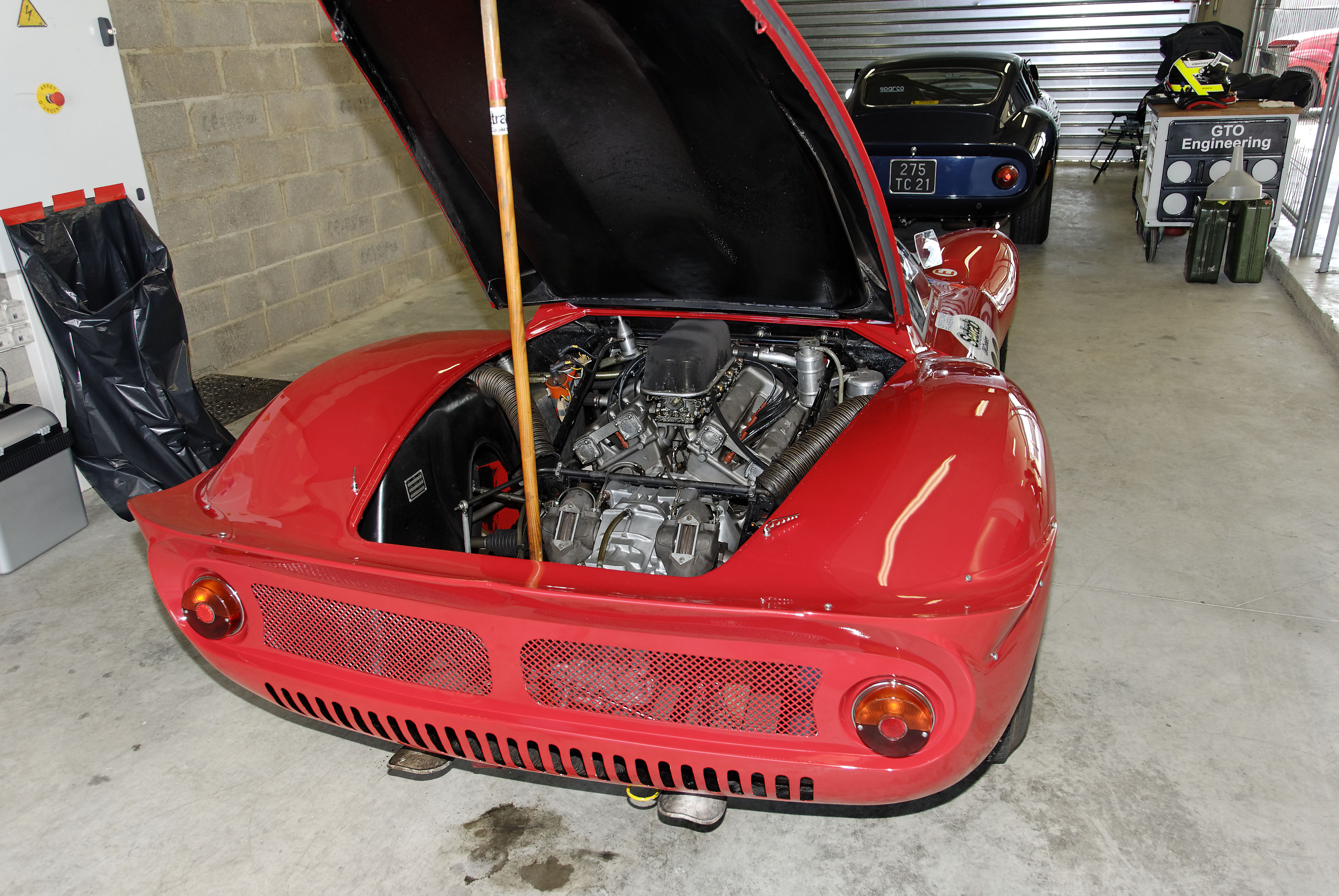 1966 Dino 206 S Spyder s/n 016 – at LM Story at Bugatti Circuit in Le Mans on 6 July 2007. In the back, the blue 1965 Ferrari 275 GTB s/n 07765.